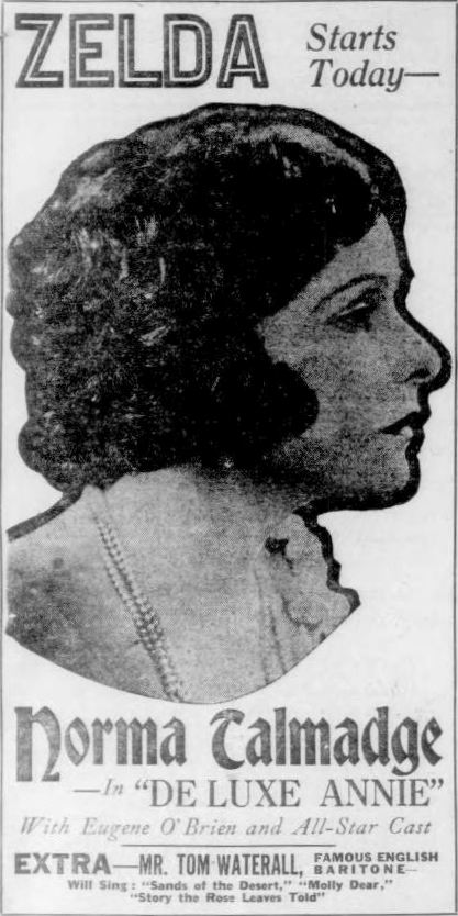 Newspaper advertisement for the American film De Luxe Annie (1918) with Norma Talmadge, on page 5 of the February 18, 1922 Duluth Herald.